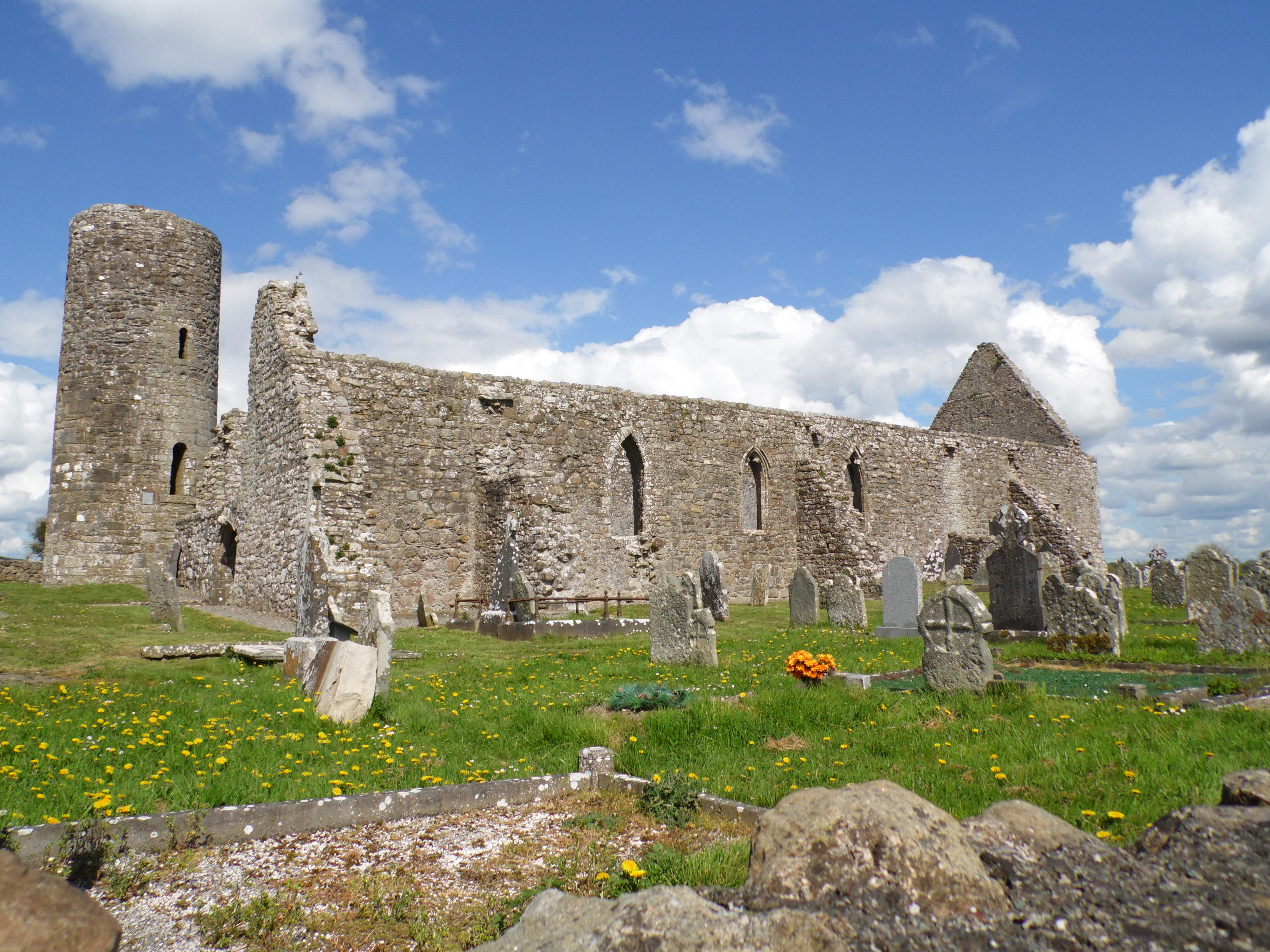 Drumlane Church and Round Tower